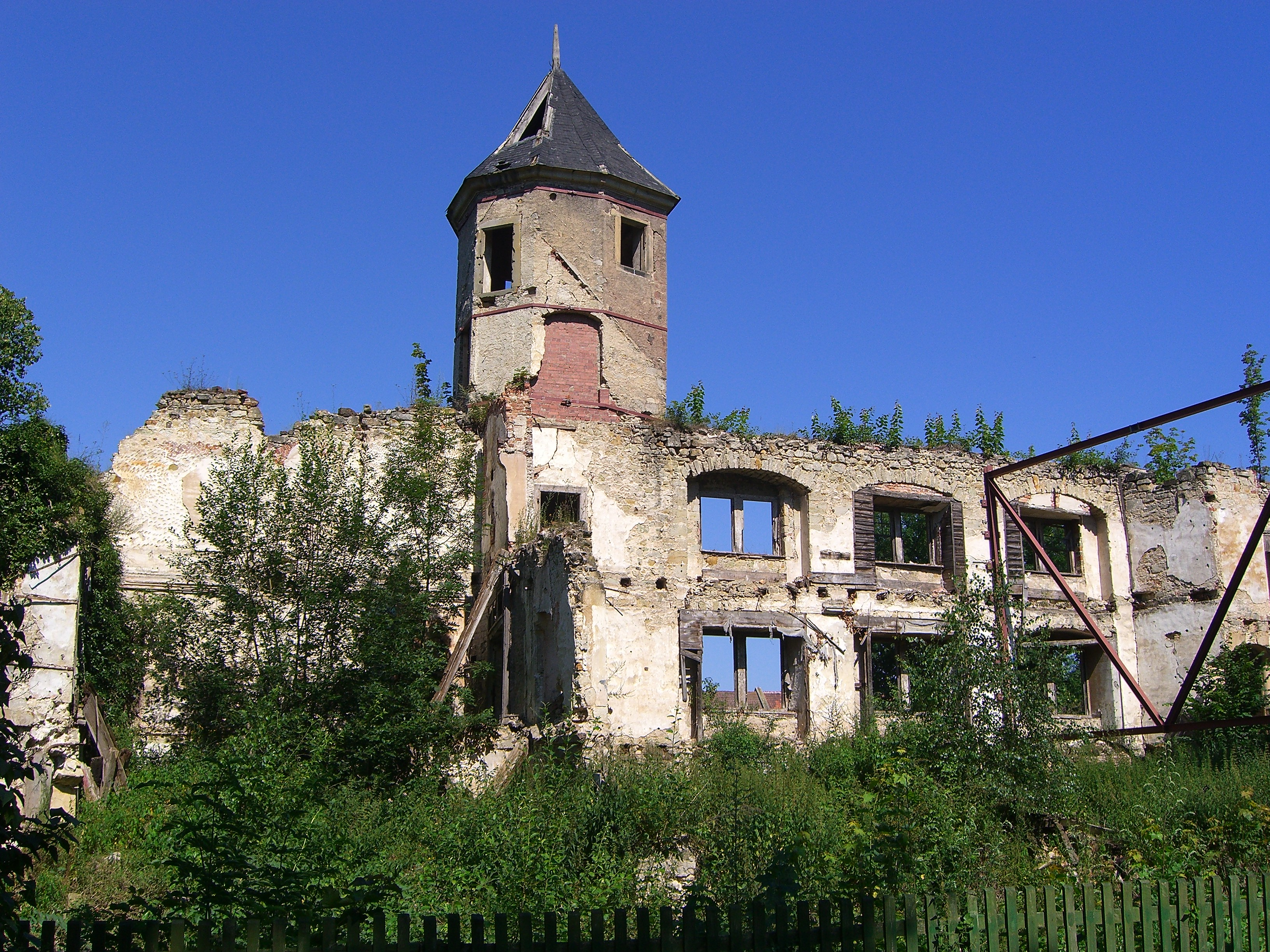 Palace remains in Harbke.